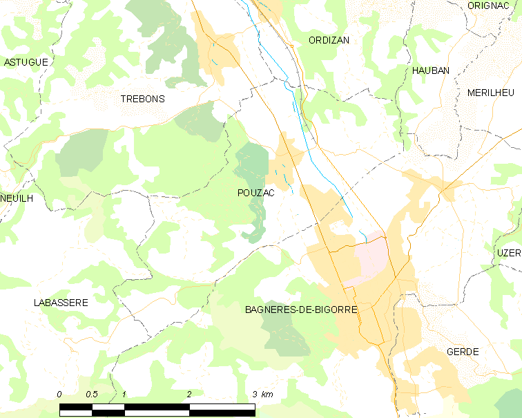 Map of French municipality